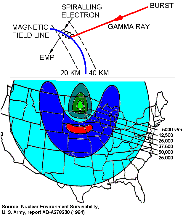 Colored version of illustrations from the 1994 U.S. Army report ADA278230, "Nuclear Environment Survivability". The mechanism is for a 400 km high altitude burst EMP: gamma rays hit the atmosphere between 20-40 km altitude, ejecting electrons which are then deflected sideways by the earth's magnetic field. This makes the electrons radiate EMP over a massive area. Because of the curvature of earth's magnetic field over the USA, the maximum EMP occurs south of the detonation and the minimum occurs to the north.